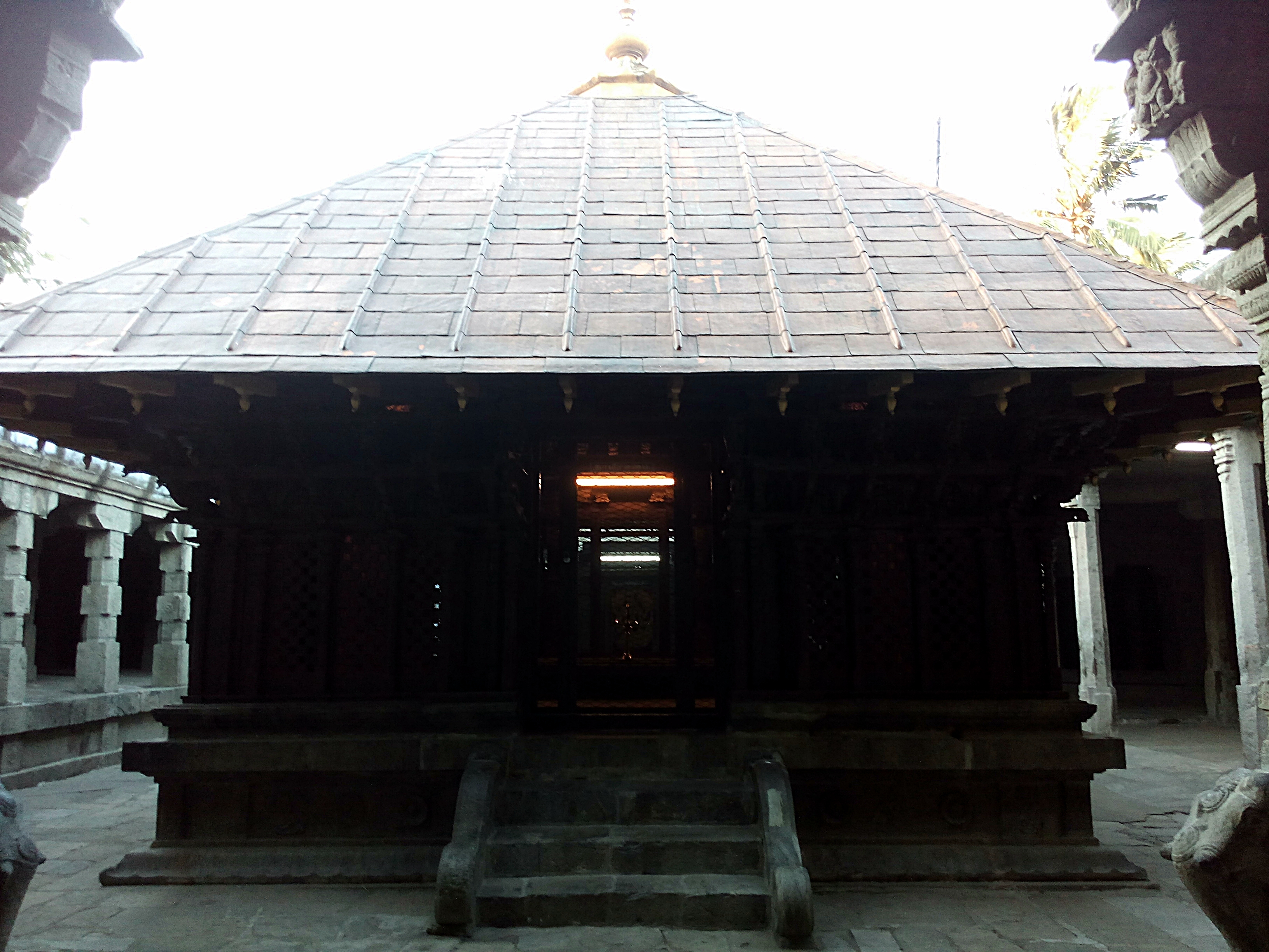 Thamira Saba, Nellaiappar Temple